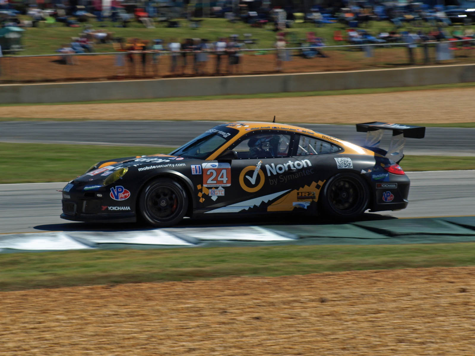 The Competition Motorsports Porsche 997 GT3 Cup at the 2012 Petit Le Mans